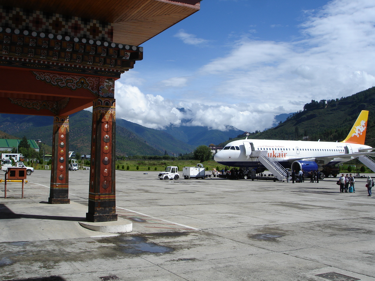 View of Paro International Airport in Bhutan. An Airbus A319-115 aircraft (A5-RGF) aircraft of Druk Air on the apron.